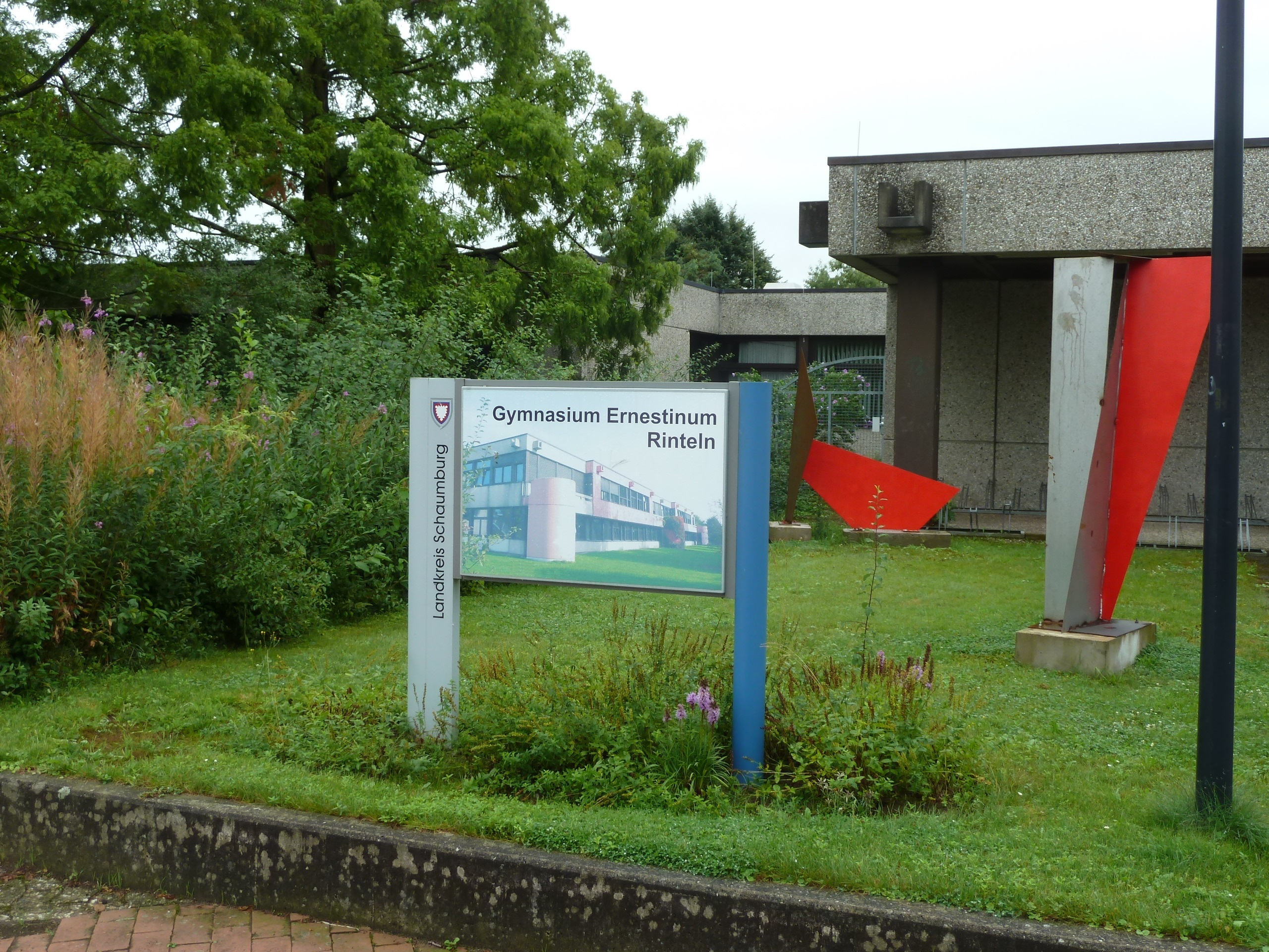 1975 new school building of Ernestinum, Rinteln